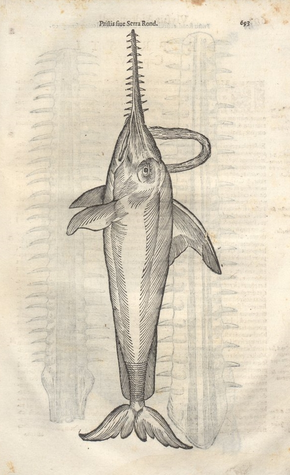 Ulysses Aldrovandus, De piscibus (1613) p. 693: "Pristis"